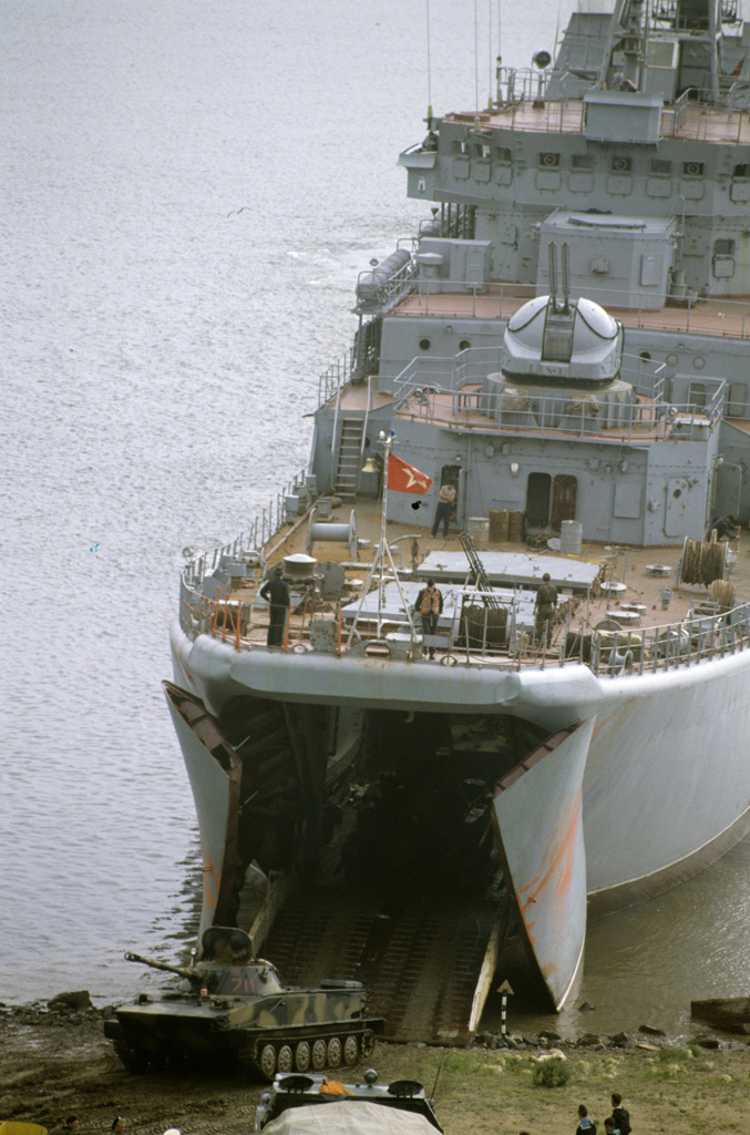 “Pacific Fleet naval infantry”. A large landing ship unloads amphibious tanks of the Russian Pacific Fleet naval infantry.